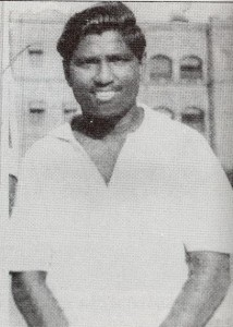 Sheoo Mewalal (some mistakenly pronounce Sahu) is one of legendary footballer of India in the 1950s. He is the first hat trick scorer for India since independence.